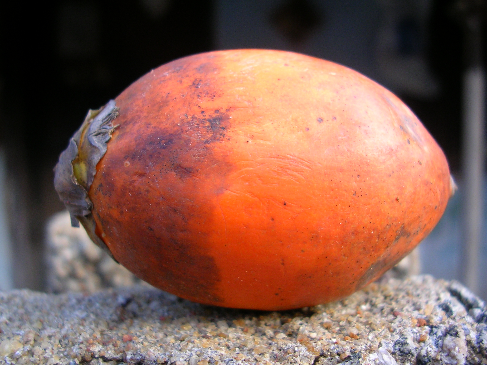 Photo of a ripe areca nut. ಕನ್ನಡ: ಹಣ್ಣಡಿಕೆ.